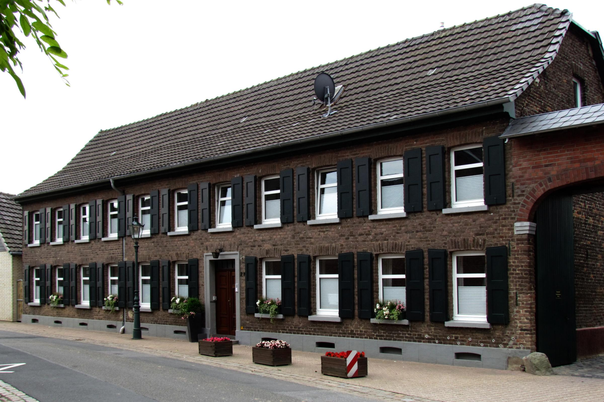 This is a photograph of an architectural monument.It is on the list of cultural monuments of Korschenbroich